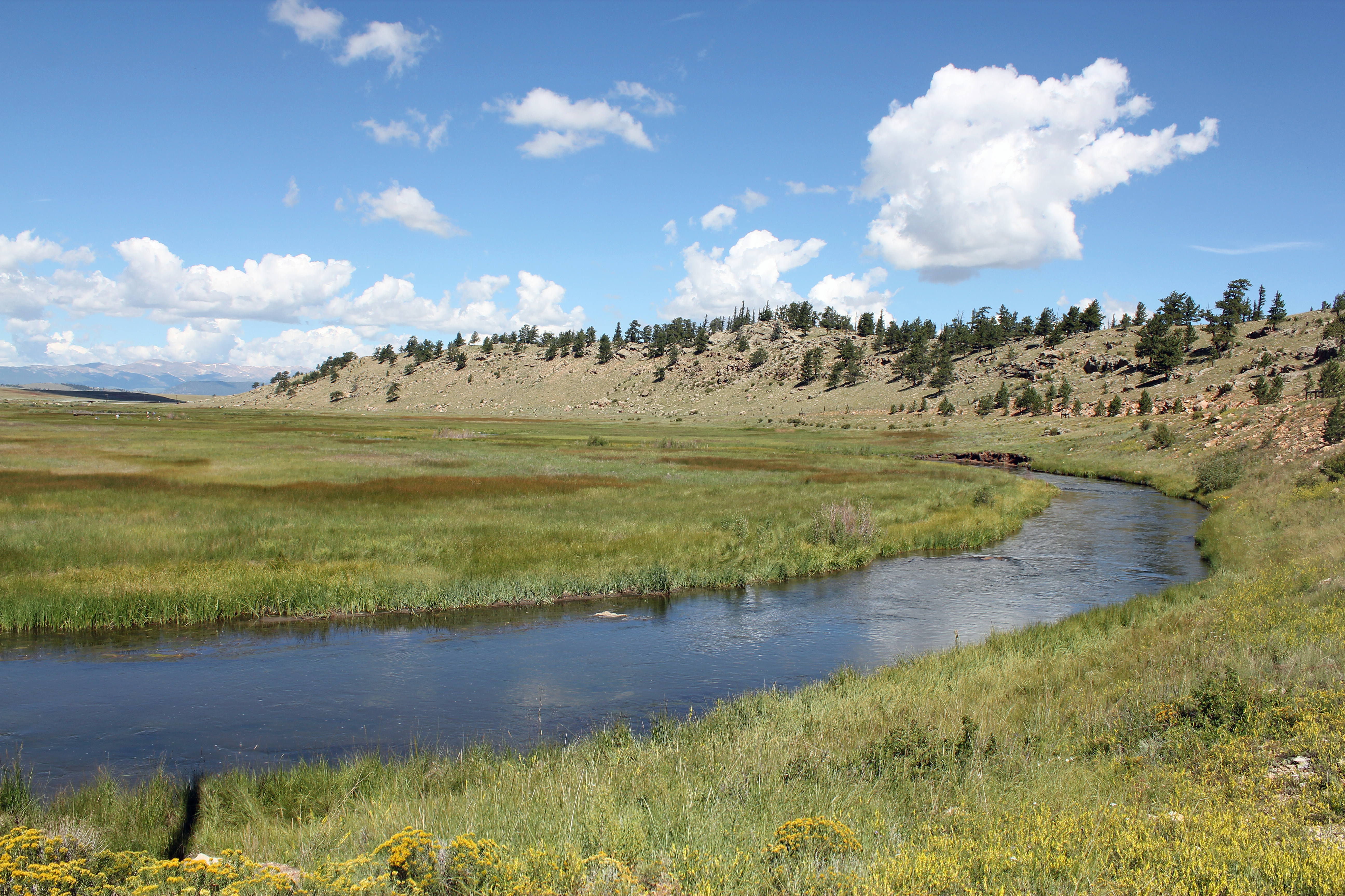 The South Fork South Platte River, located near Colorado State Highway 9 near Hartsel, Colorado.